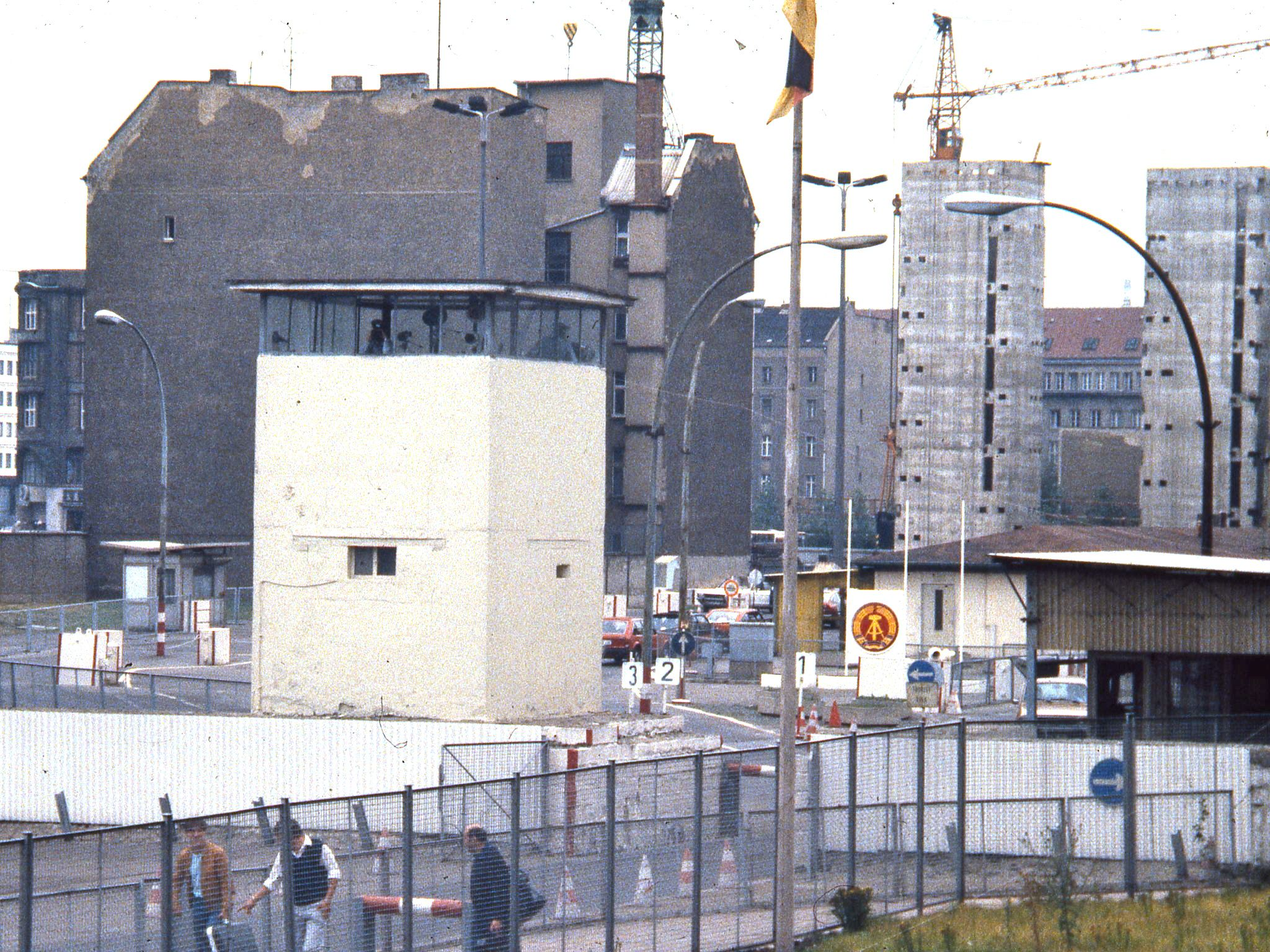 East German border guardhouse in Berlin, 1984 Other information Photo by George Garrigues.